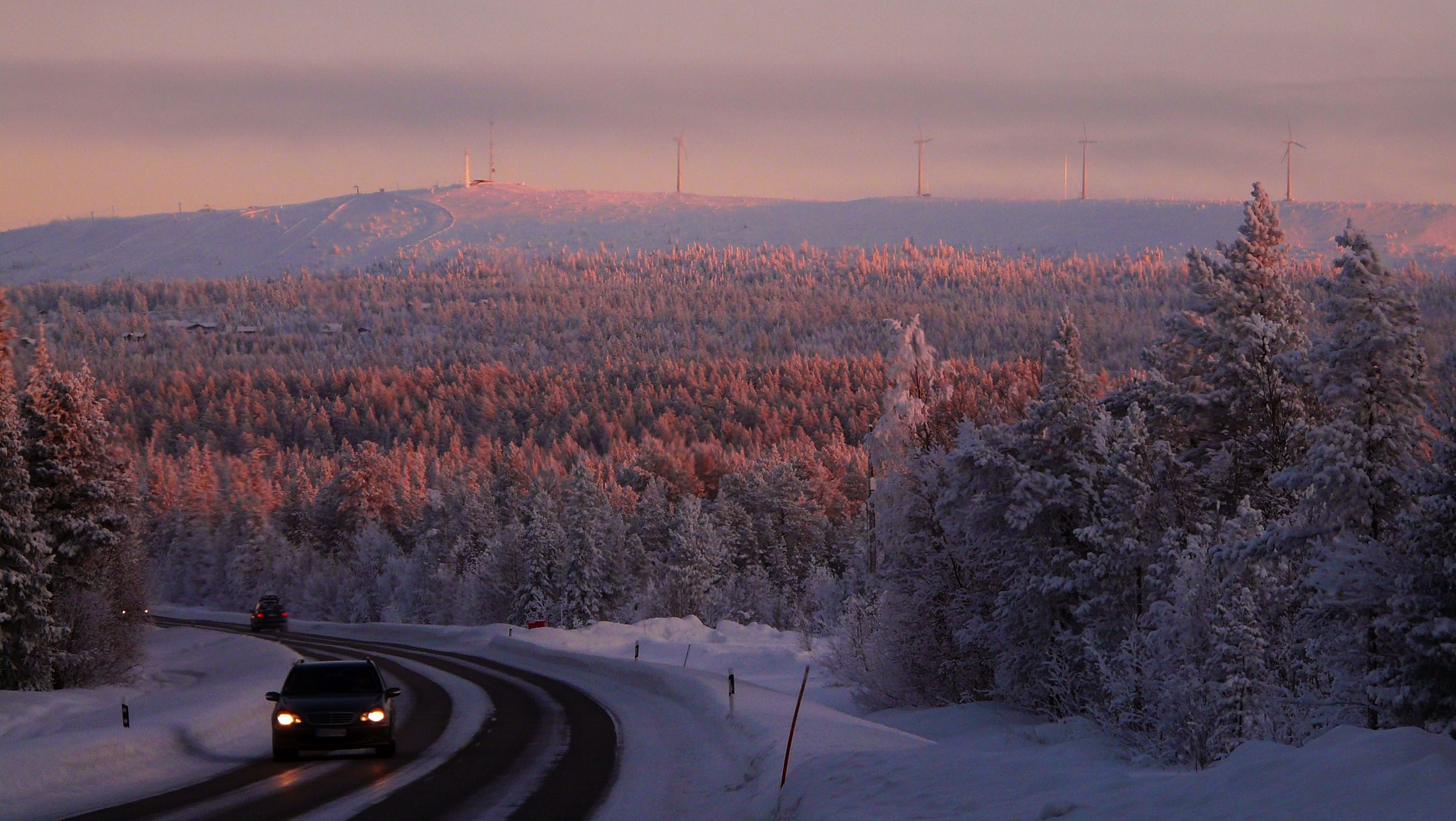 Olostunturi as seen from the northeast from Rovaniementie (national road 79) in 2009 February.